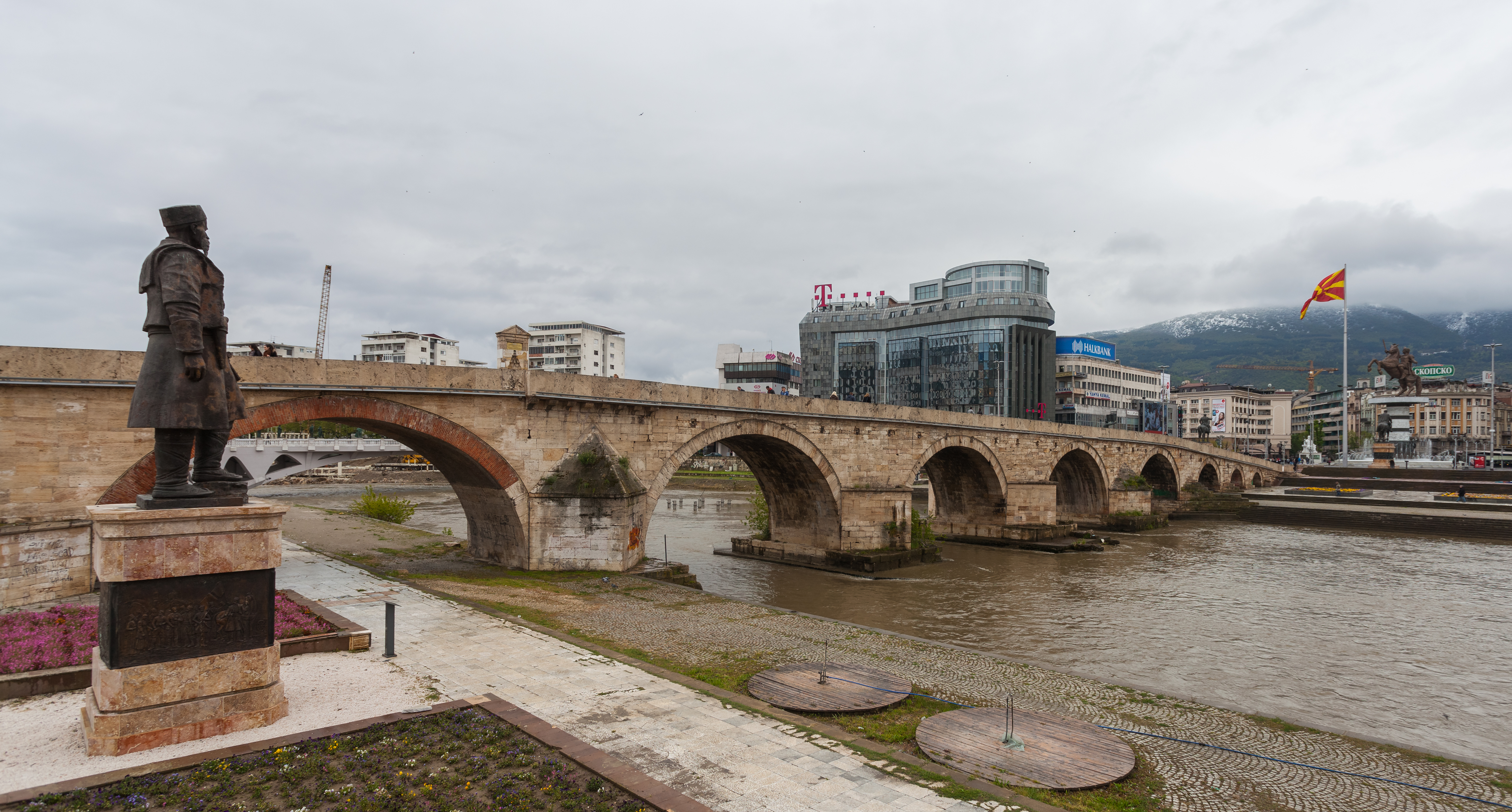 Stone Bridge, Skopje, Republic of Macedonia